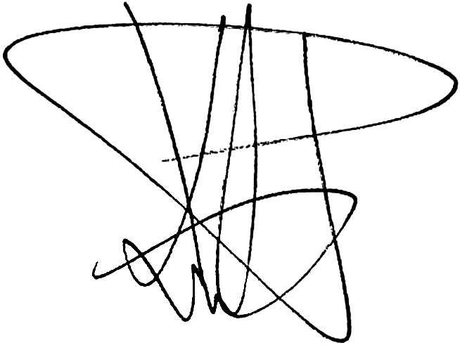 Signature of Czech tennis player Petra Kvitová